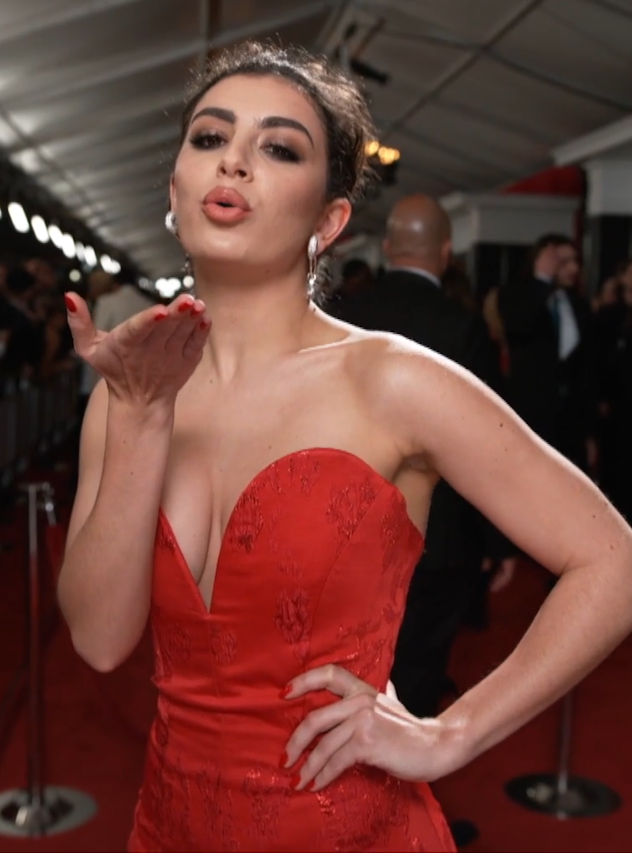 Charli XCX at 2017 Grammy Awards Red Carpet